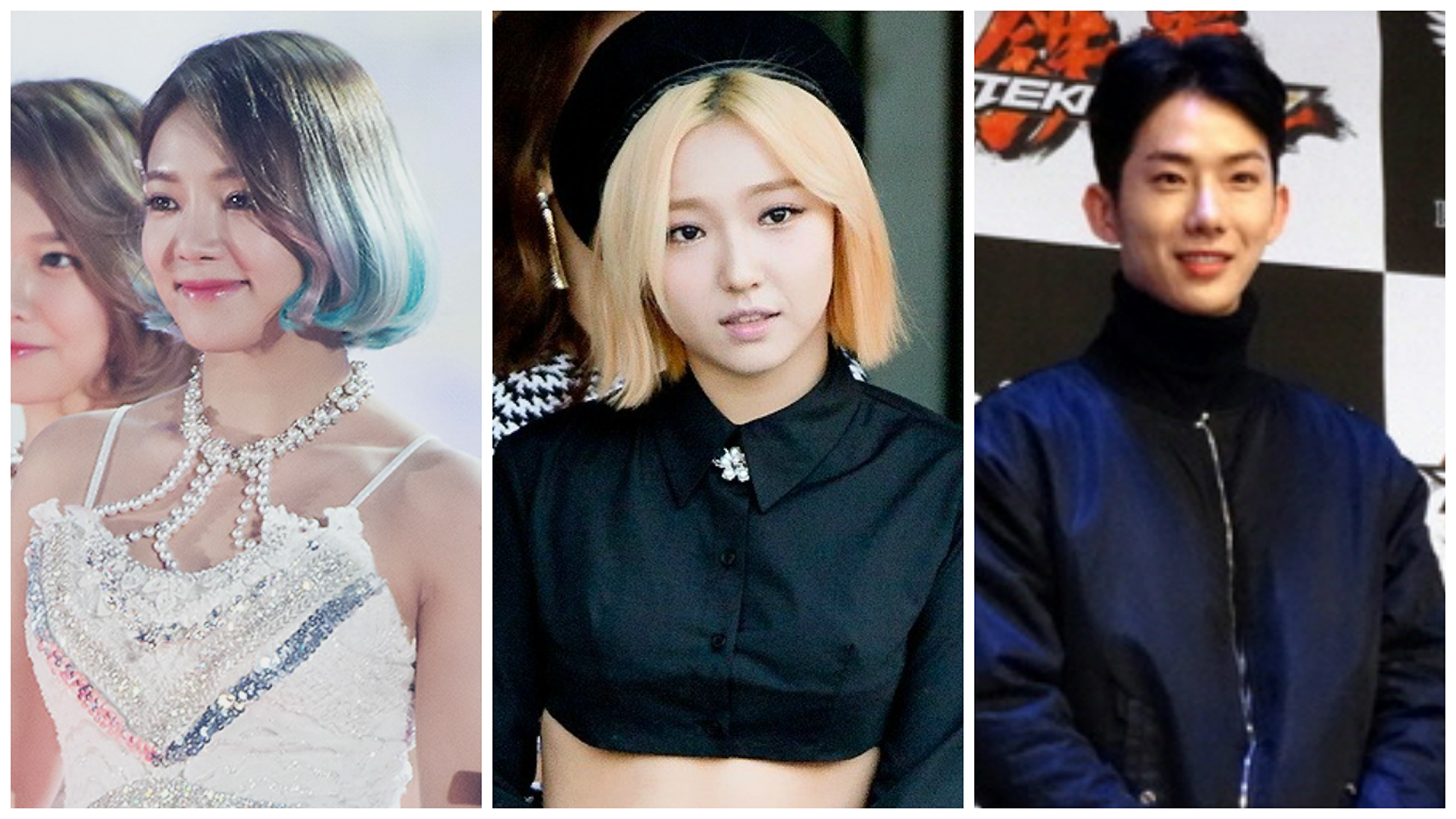 R-L: Hyoyeon, Min and Jo Kwon.